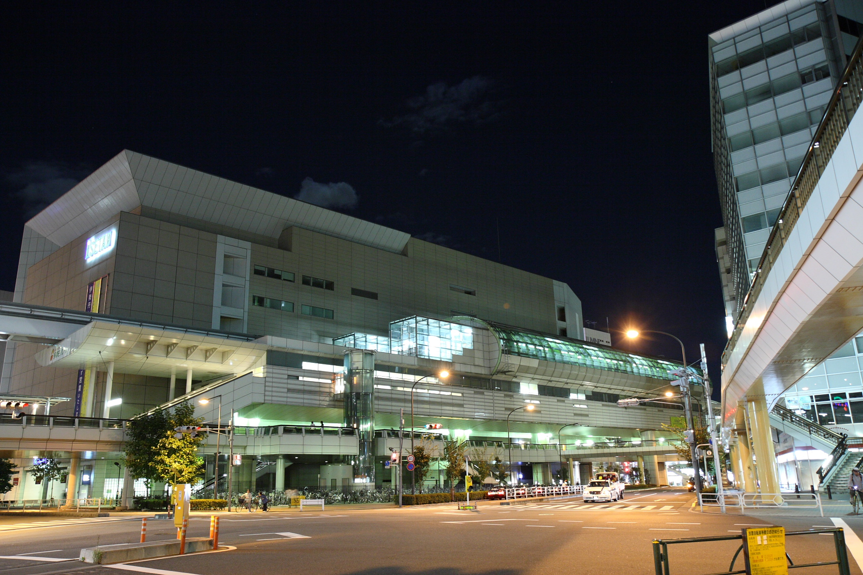 The monorail Tachikawa north station in Tachikawa City, Tokyo